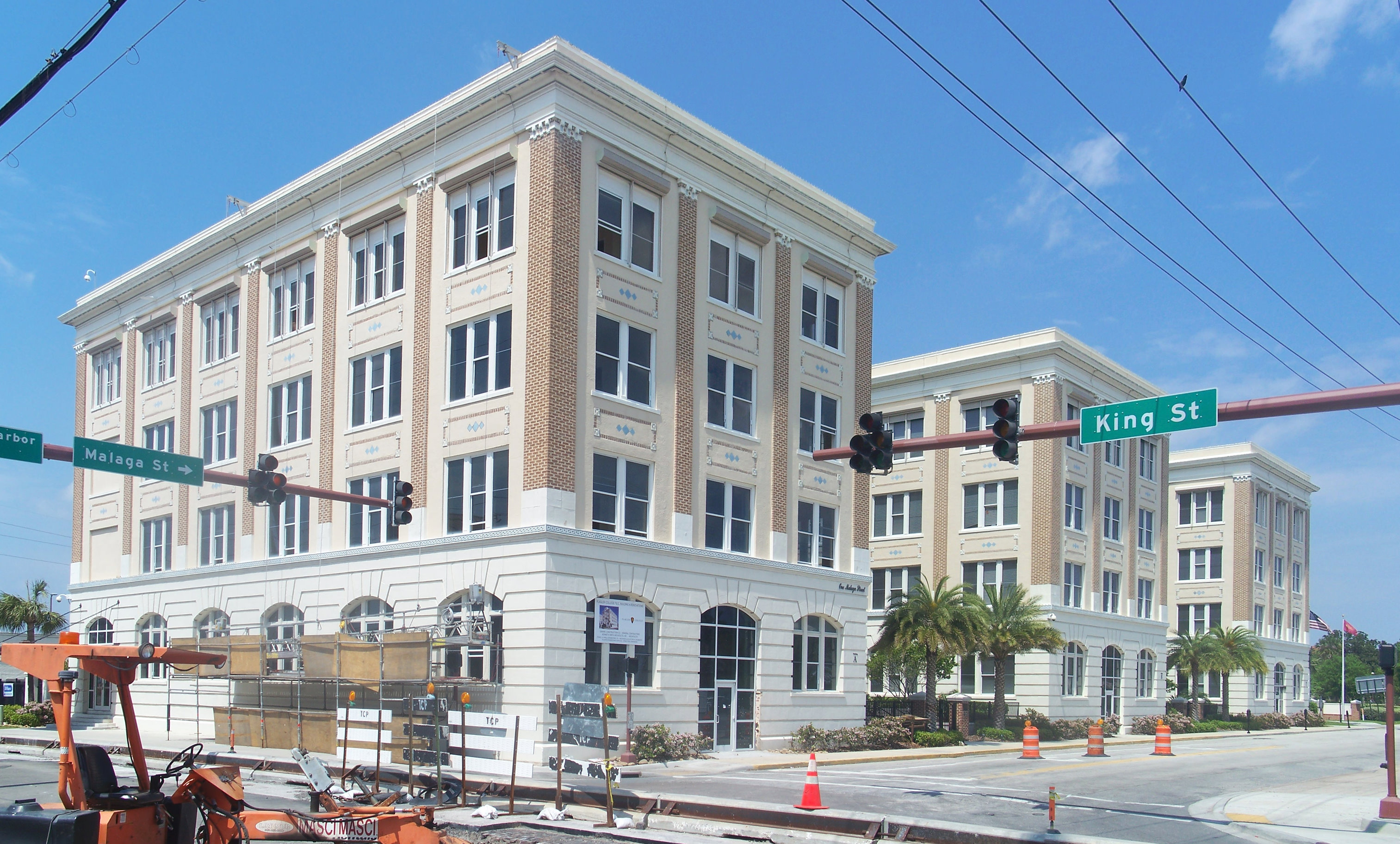 St. Augustine, Florida: Model Land Company Historic District: Florida East Coast Railway: Old office buildings